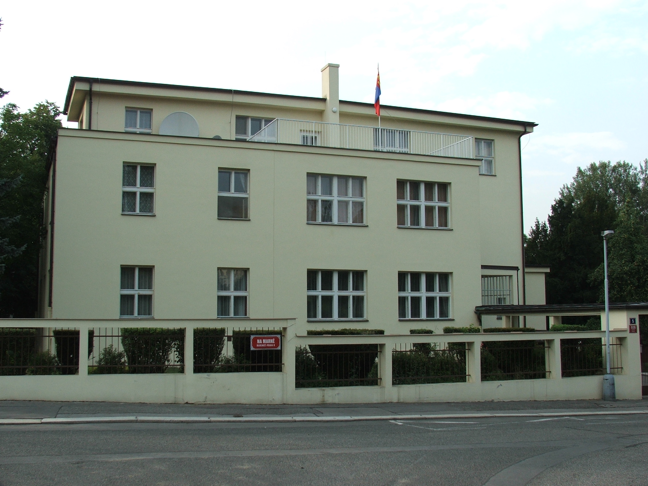 Embassy of Mongolia in Prague - Bubeneč, Czechia.